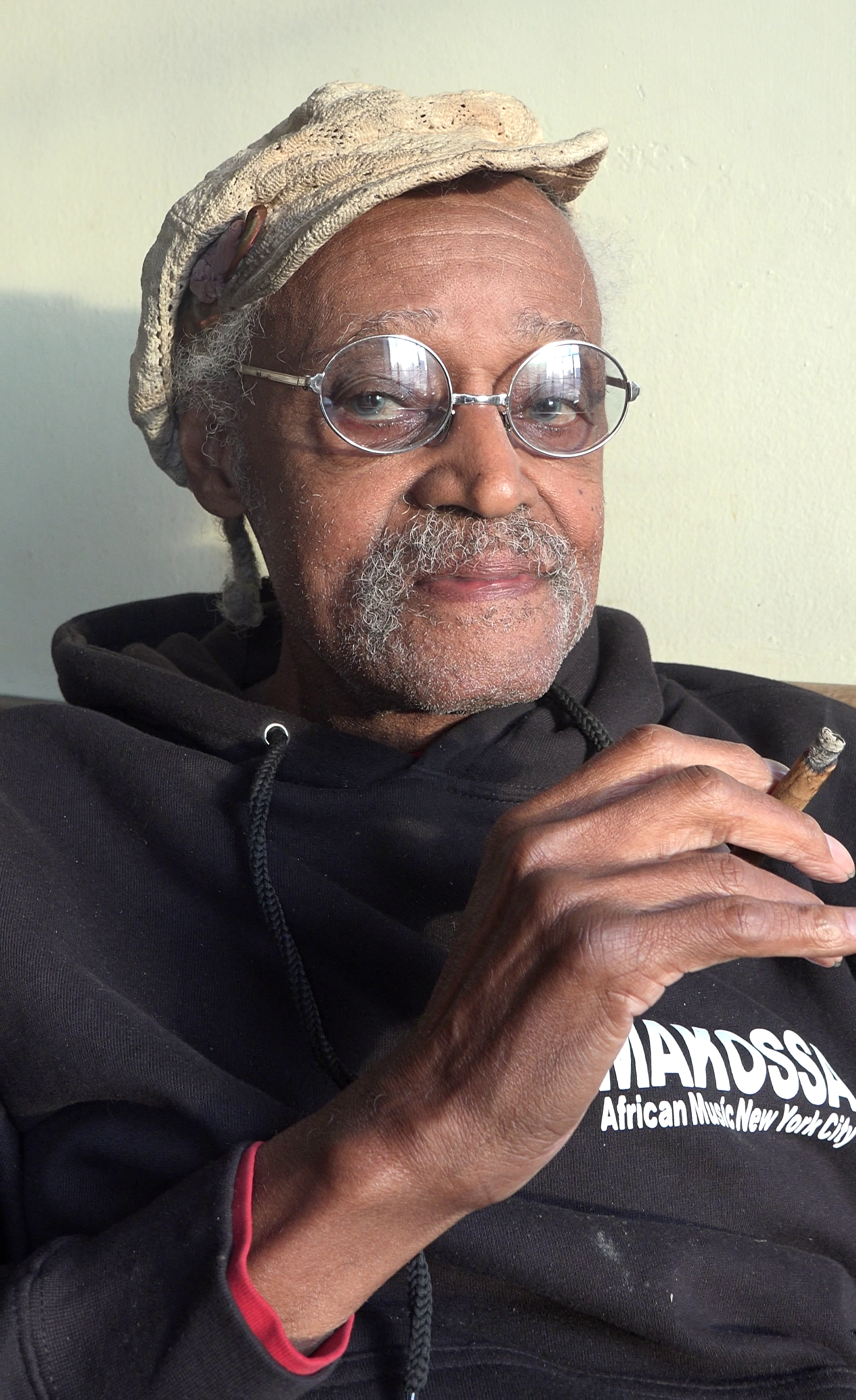 Melvin Van Peebles at a photoshoot in his home/office.